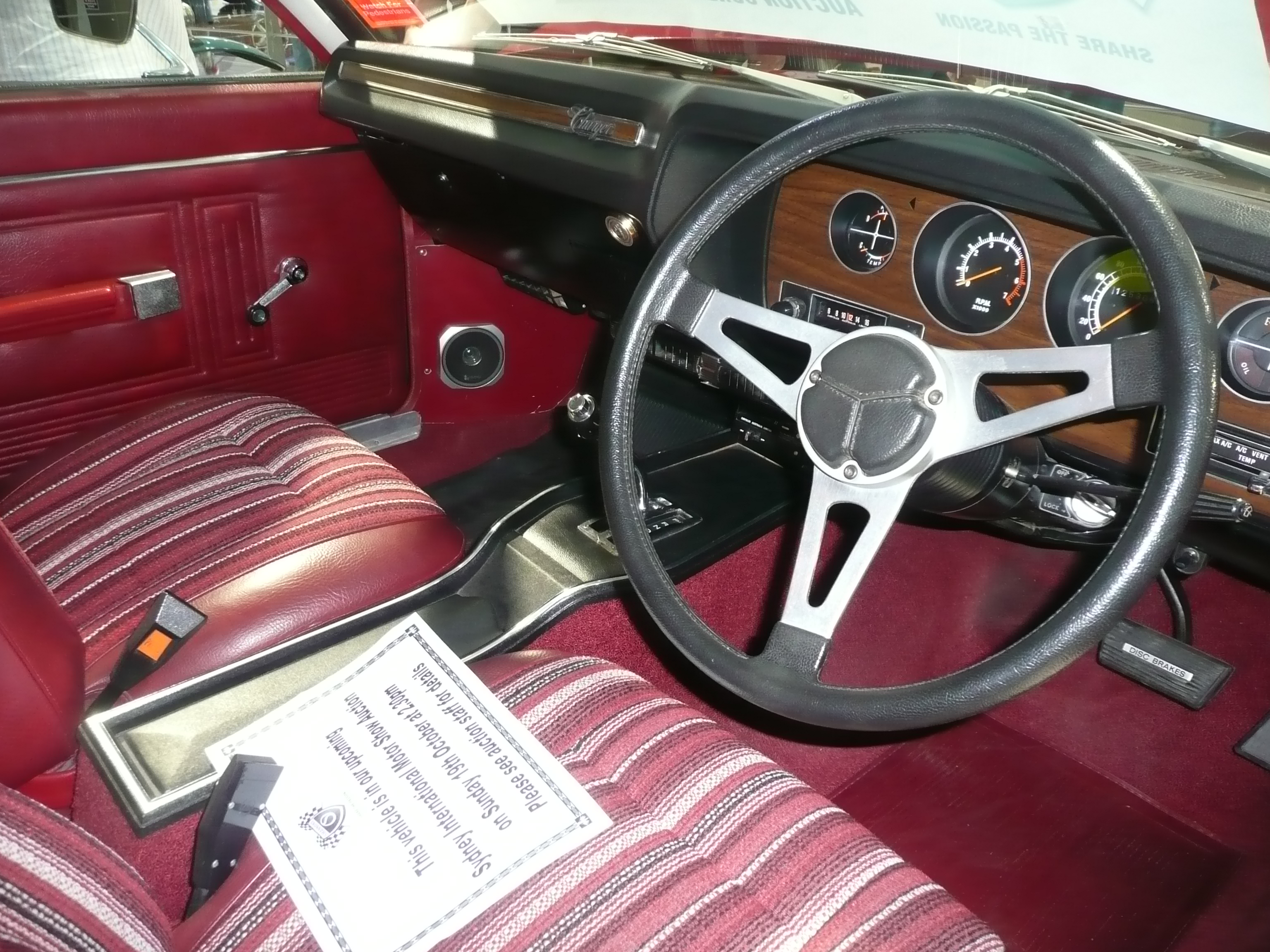 1976 Chrysler Charger (VK) 770 coupe. Photographed at the 2008 Australian International Motor Show, Sydney, New South Wales, Australia.